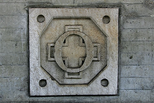 Marker from 1856 for the Kilometre Zero of the Swiss train network in the train station of Olten (at track 12)